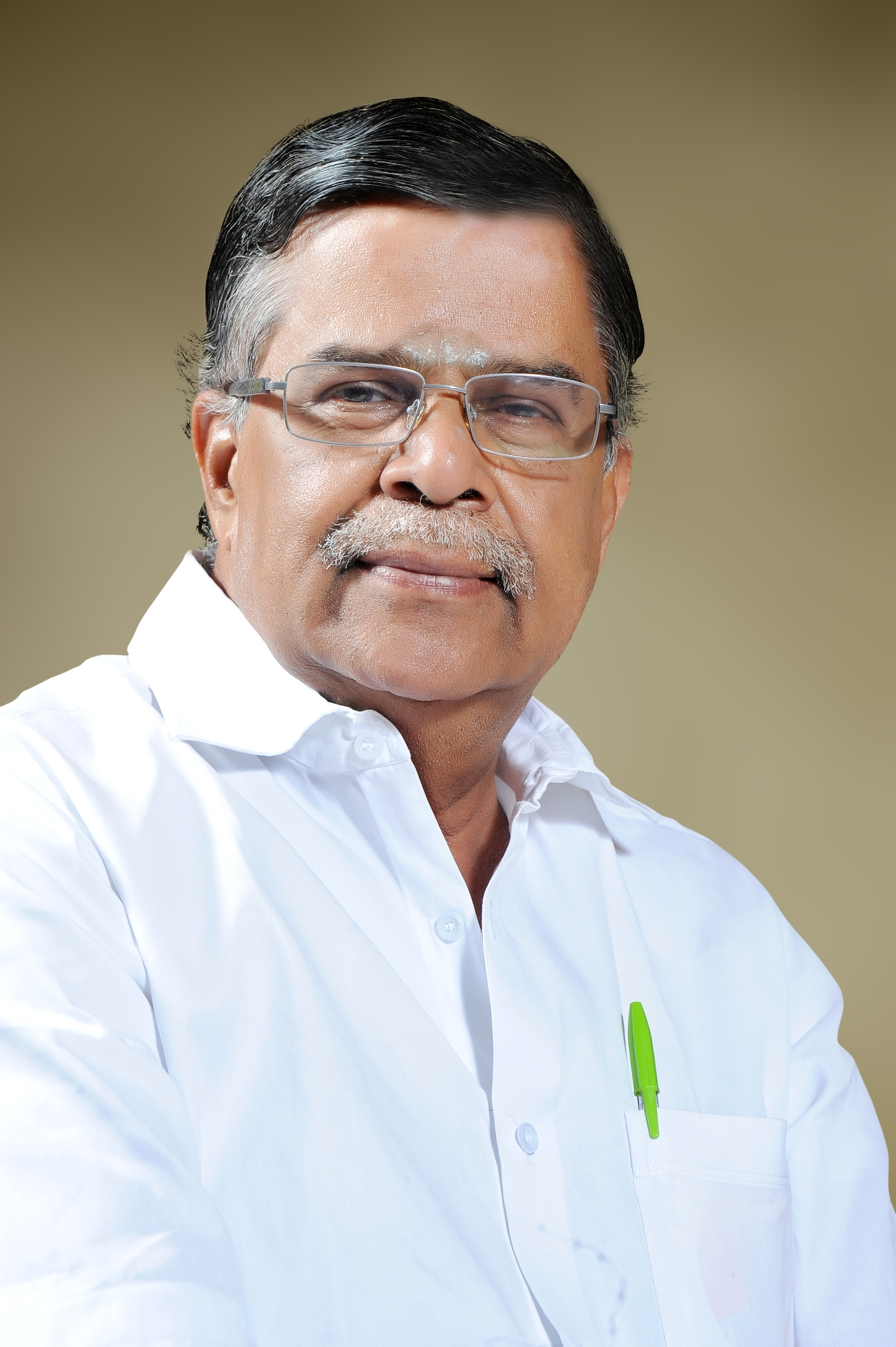 Tamil Nadu BJP